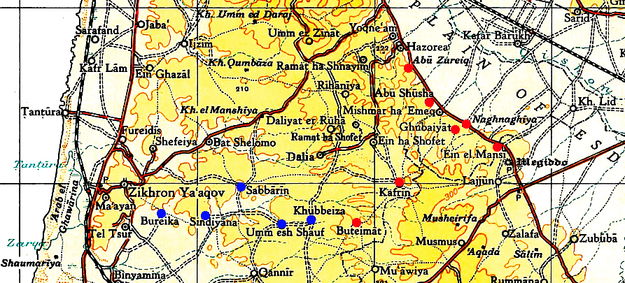 Palestinian villages cleared by Haganah 8-15 April 1948 (red). Blue spots indicate villages cleared by Irgun on 12 May.